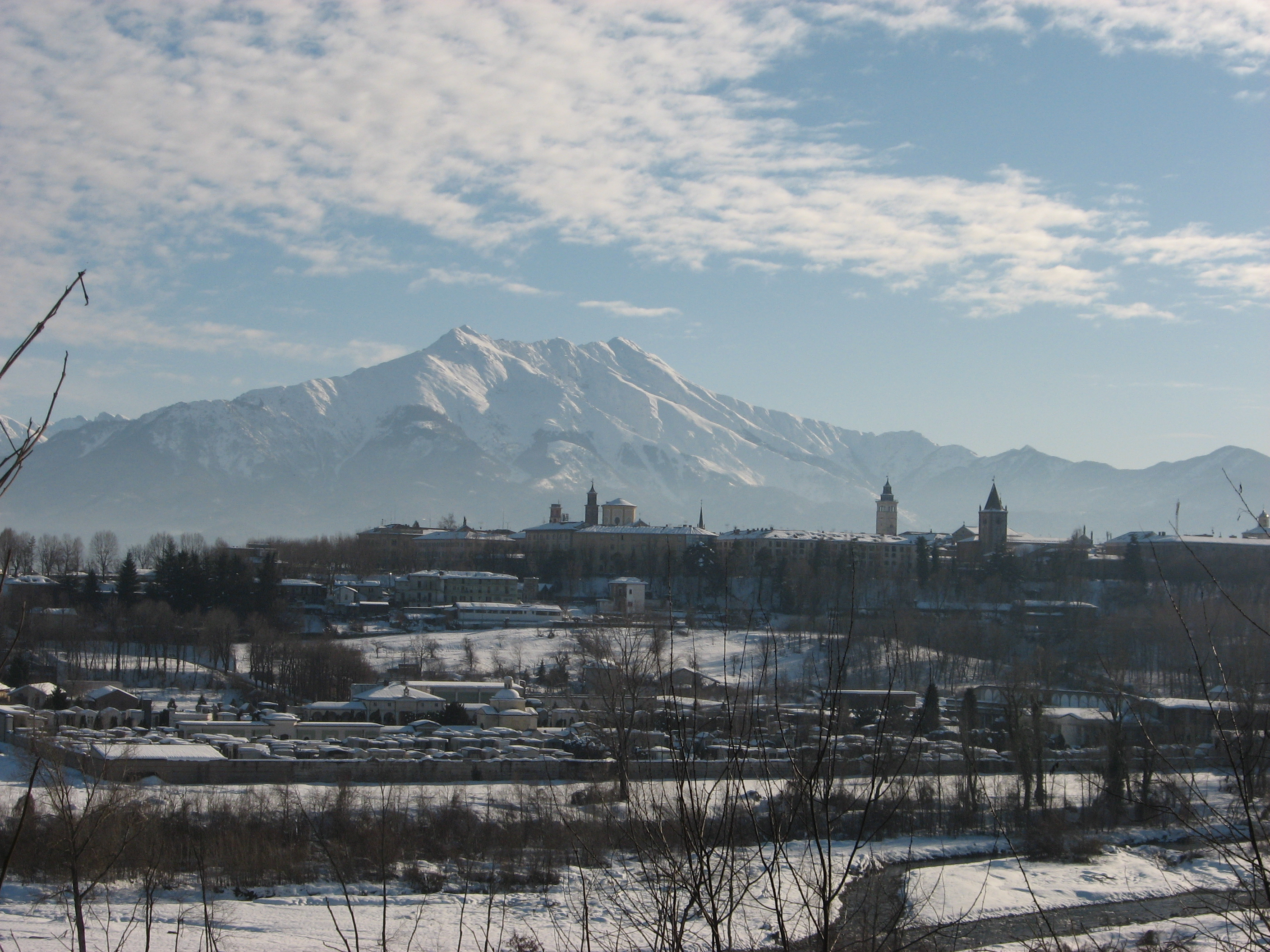 The city of Cuneo and the mount Bisalta